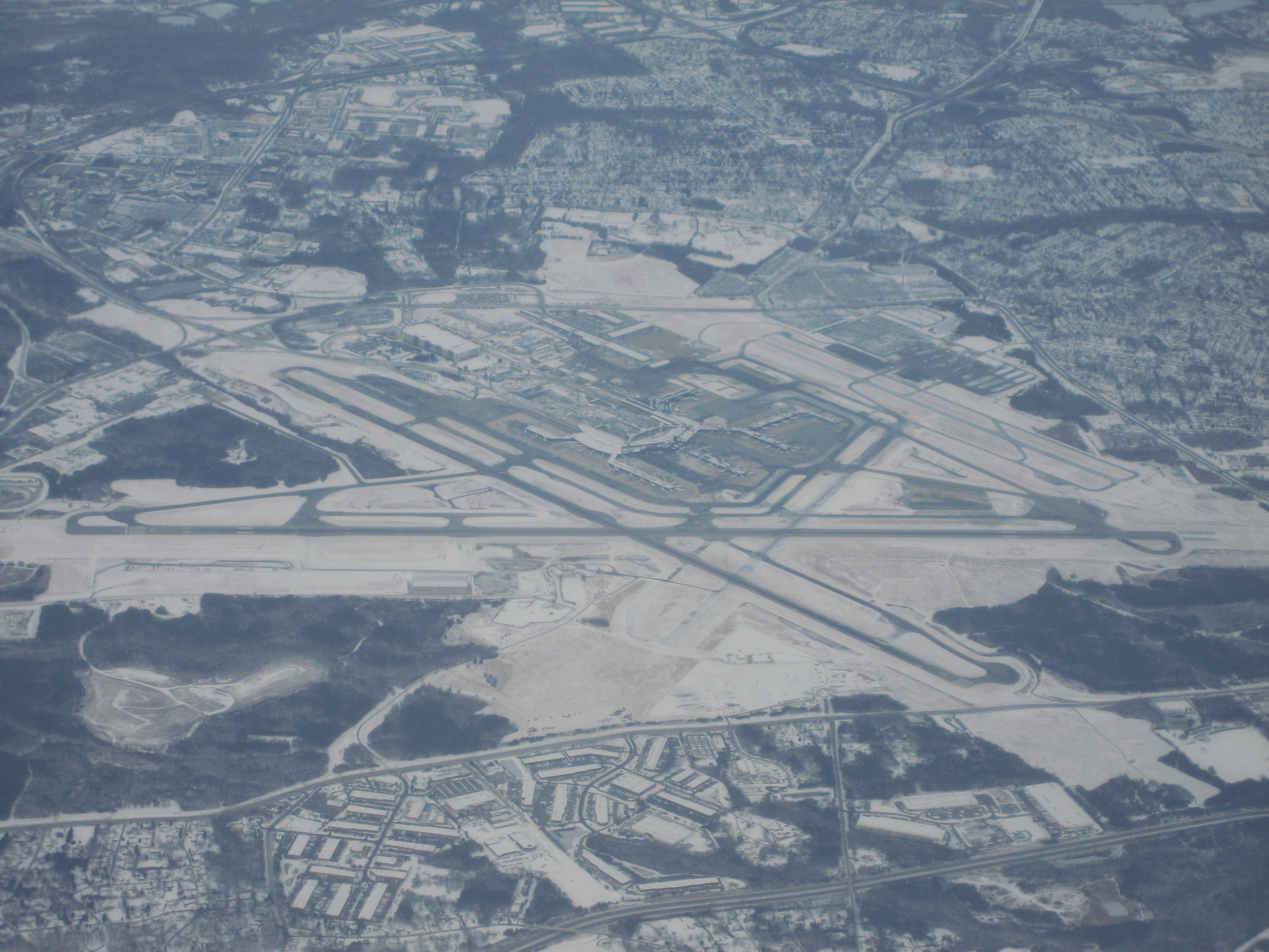 Aerial photograph of Baltimore/Washington International Thurgood Marshall Airport